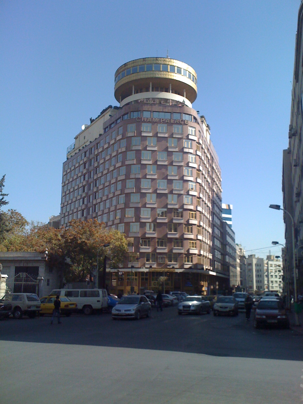 Cham hotel